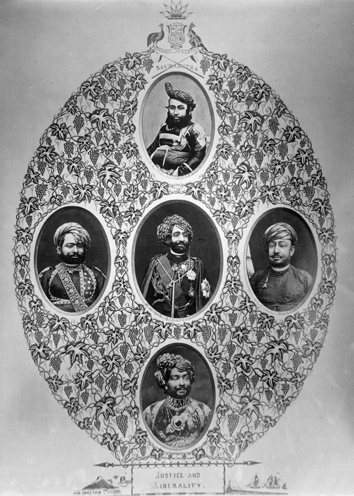 Junagadh Nawab's and state officials, 19th century. From the top: Mahabat Khan (r.1851-1882), (centre) Bahadur Khan (r.1882-1892), (bottom) Rasul Khan (r.1892-1911), (left) unidentified, (right) Baha-ud-din, a Vazir of Junagadh.